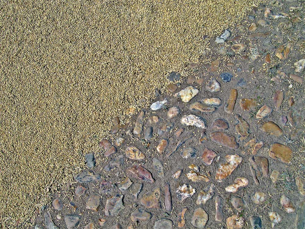 Threshing floor